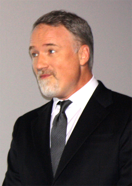 Rooney Mara, Daniel Craig and David Fincher at the Paris premiere of their film The Girl with the Dragon Tattoo.